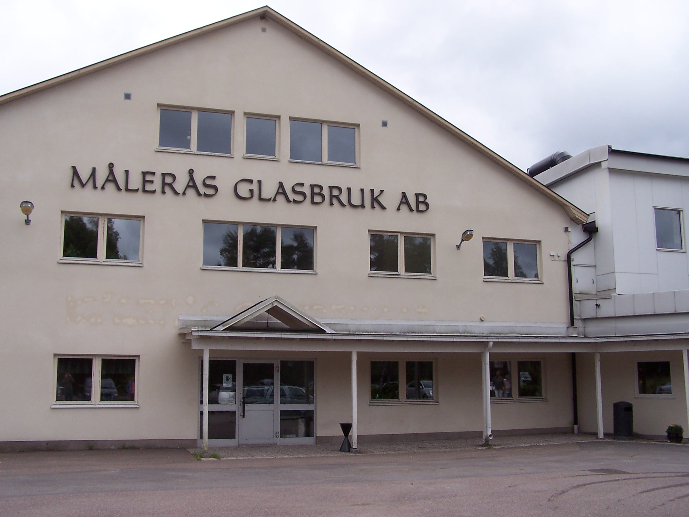 Målerås glassworks.